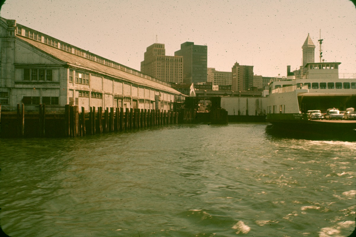 Ferry on Seattle waterfront, circa 1963. Old ferry slips here, and, at left, the Grand Trunk Pacific Dock, a pier and shed demolished 1964. Item 169289, Forward Thrust Photographs (Record Series 5804-04), [ Seattle Municipal Archives.